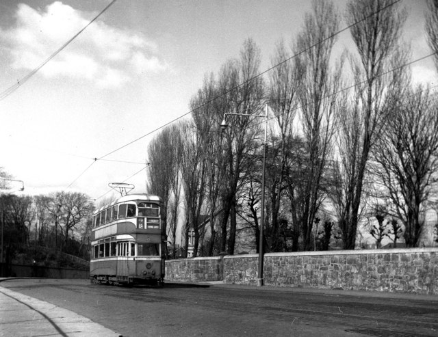 A 'Coronation' car at Burnside In 1960, some parts of the Burnside tram route had not been completely built up. Here car No 1171 approaches the terminus along an attractive stretch of road.